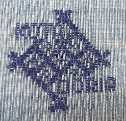 The photograph shows the mark of a handloom Kota Doria product.